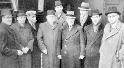 The Faroese delegation to Copenhagen in 1945, after the end of World War 2. From left: Andreas Møller, Richard Long, Poul Petersen, Peter Mohr Dam, Arup, Johan Poulsen, Jákup Fredrik Øregaard, Kristian Djurhuus and governor Hilbert.